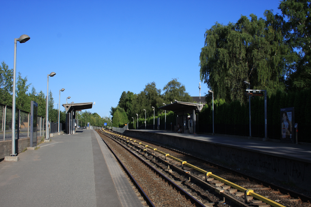 Borgen Metrostation. Seen from the end of the westbound track 2.